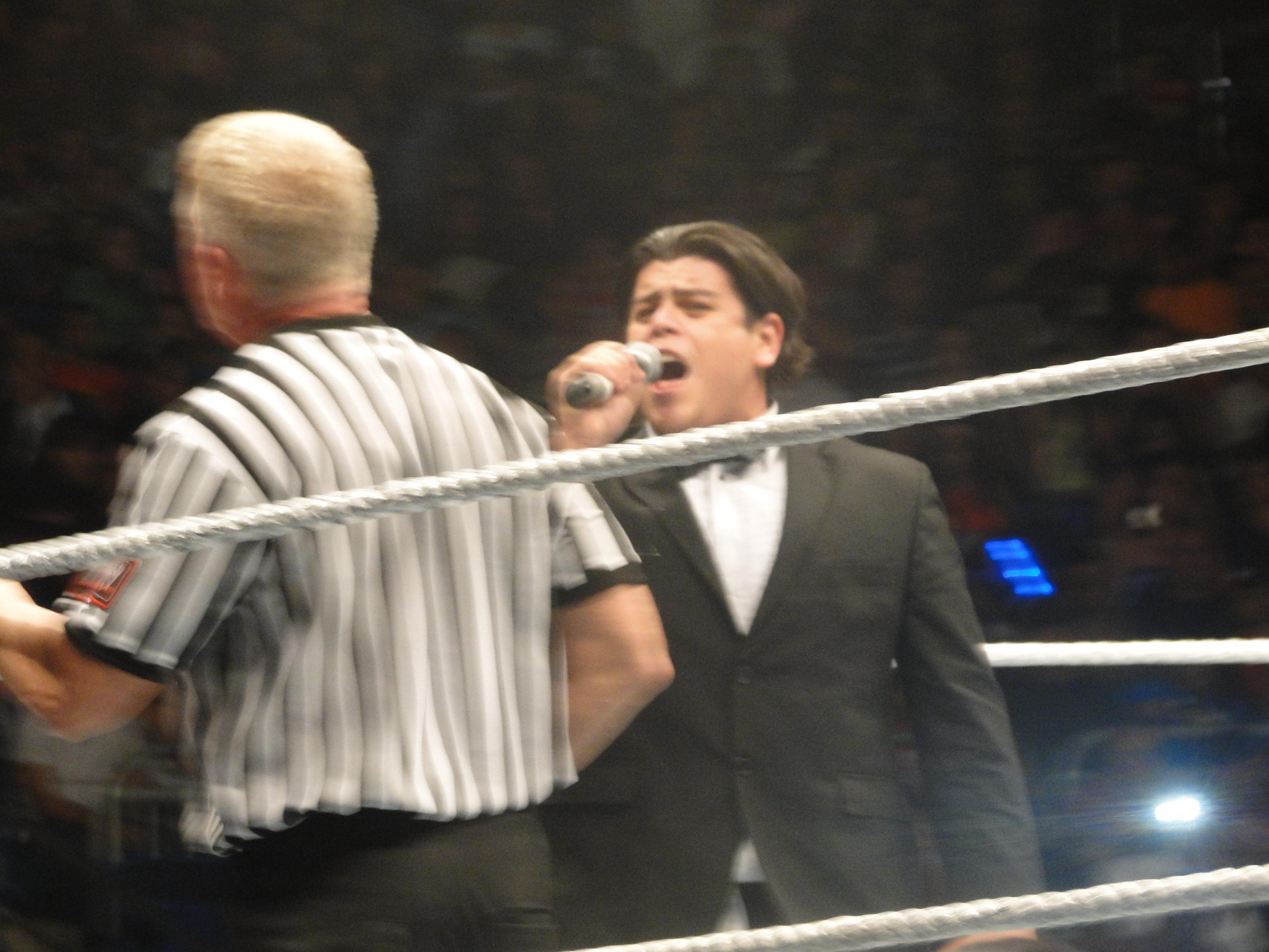 Ricardo Rodriguez announcing Alberto Del Rio for his match against John Cena at a live event in Puerto Rico